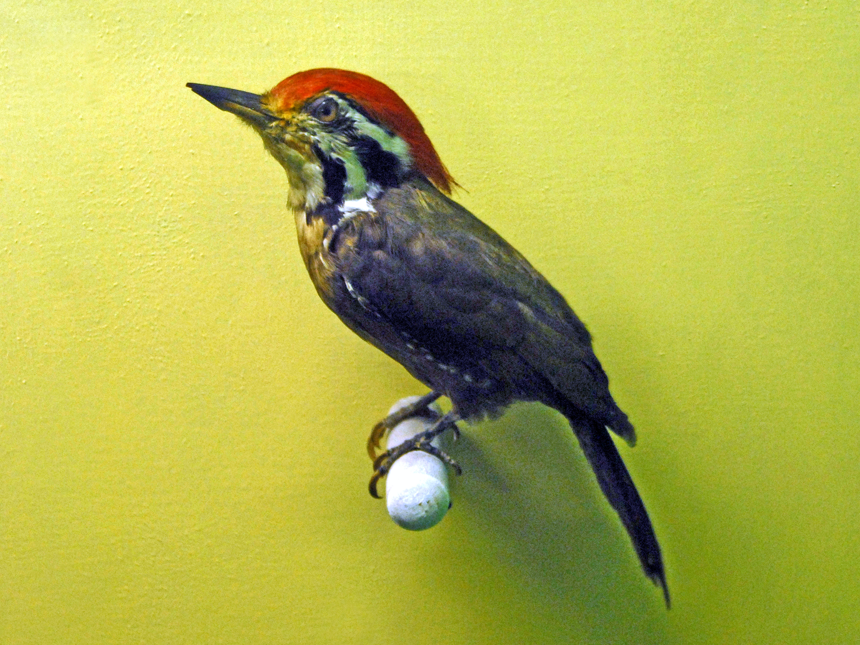 Dinopium rafflesii from Malaysia. Stuffed specimen